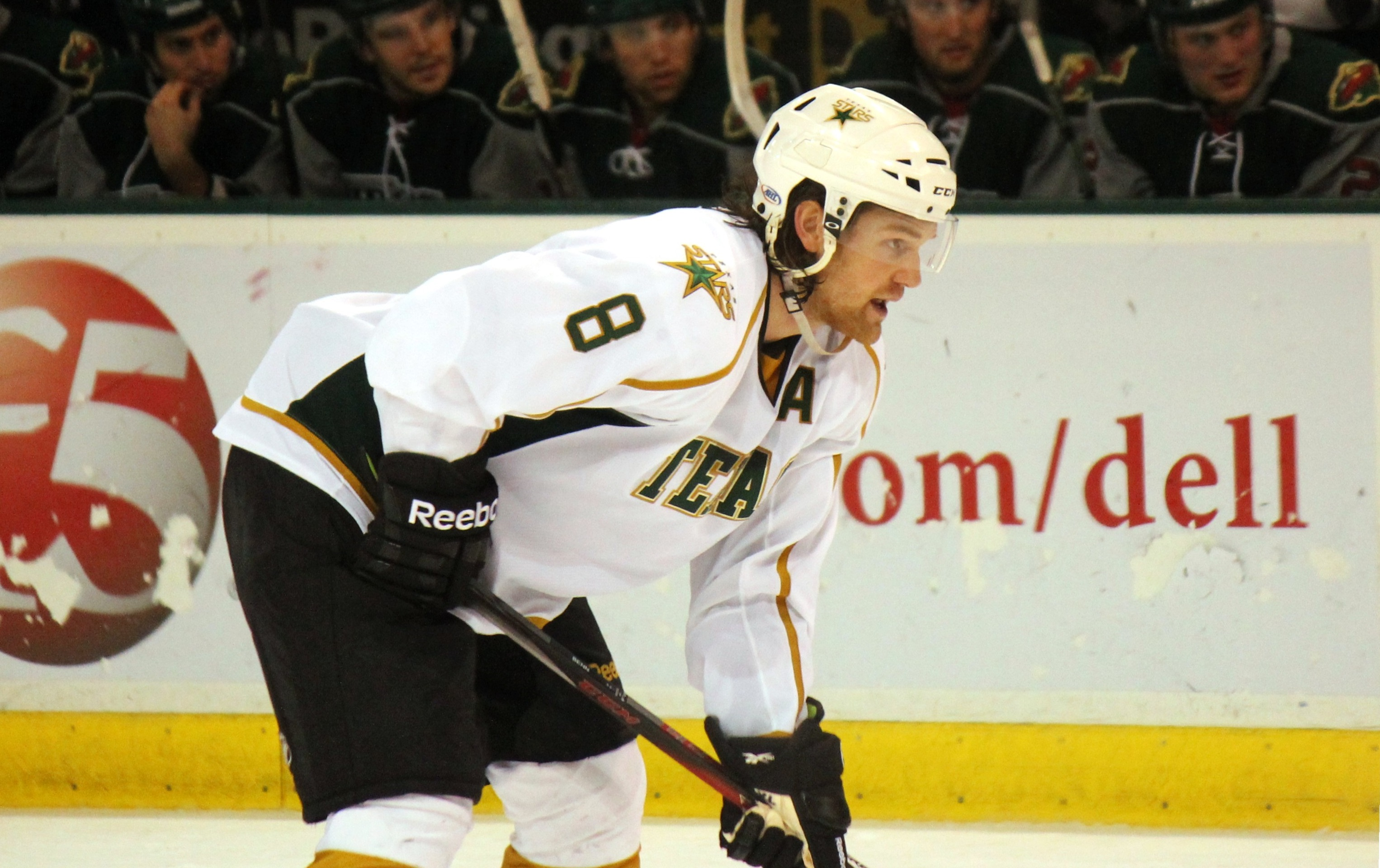 Jordie Benn of the Texas Stars